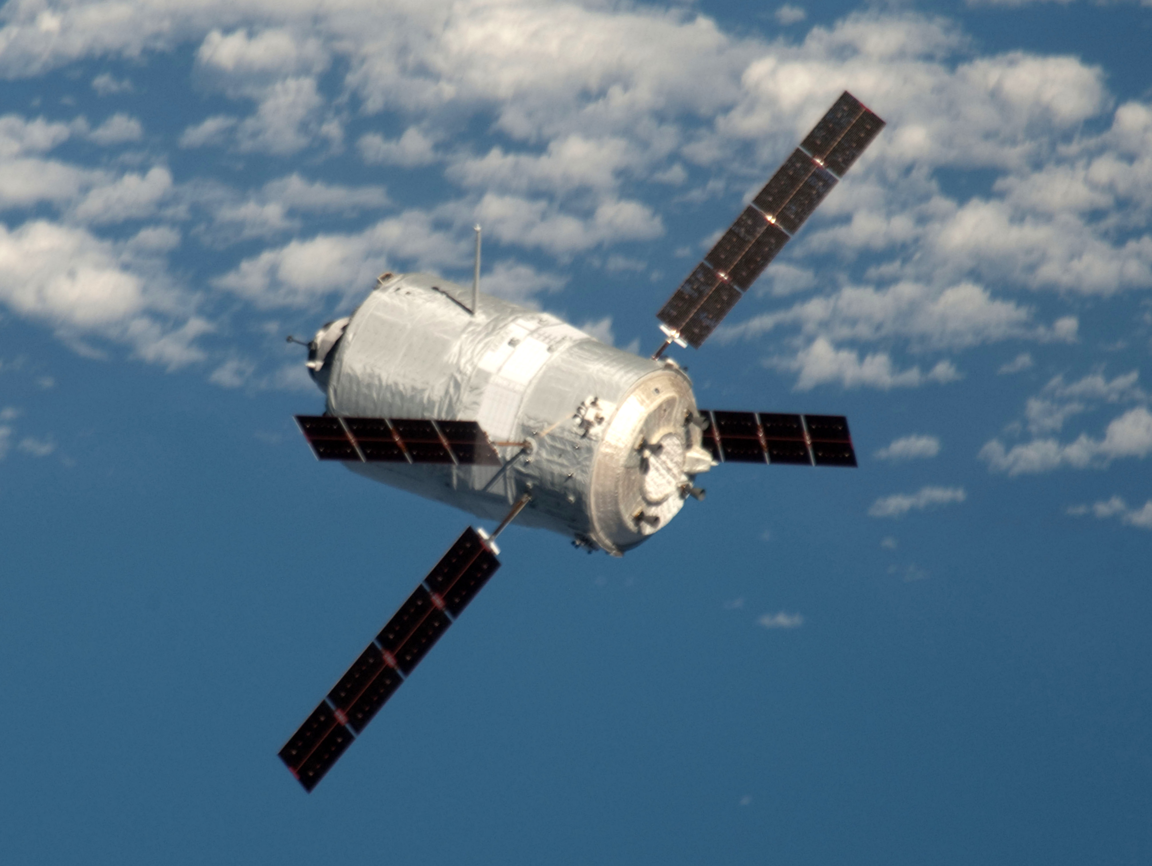 Derivative of "File:ATV-3 approaches the International Space Station 1.jpg" made with picasa3